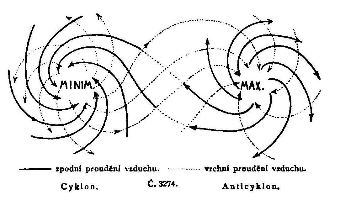 Scheme of a cyclone and an anticyclone , used to illustrate an encyclopedia article about weather.